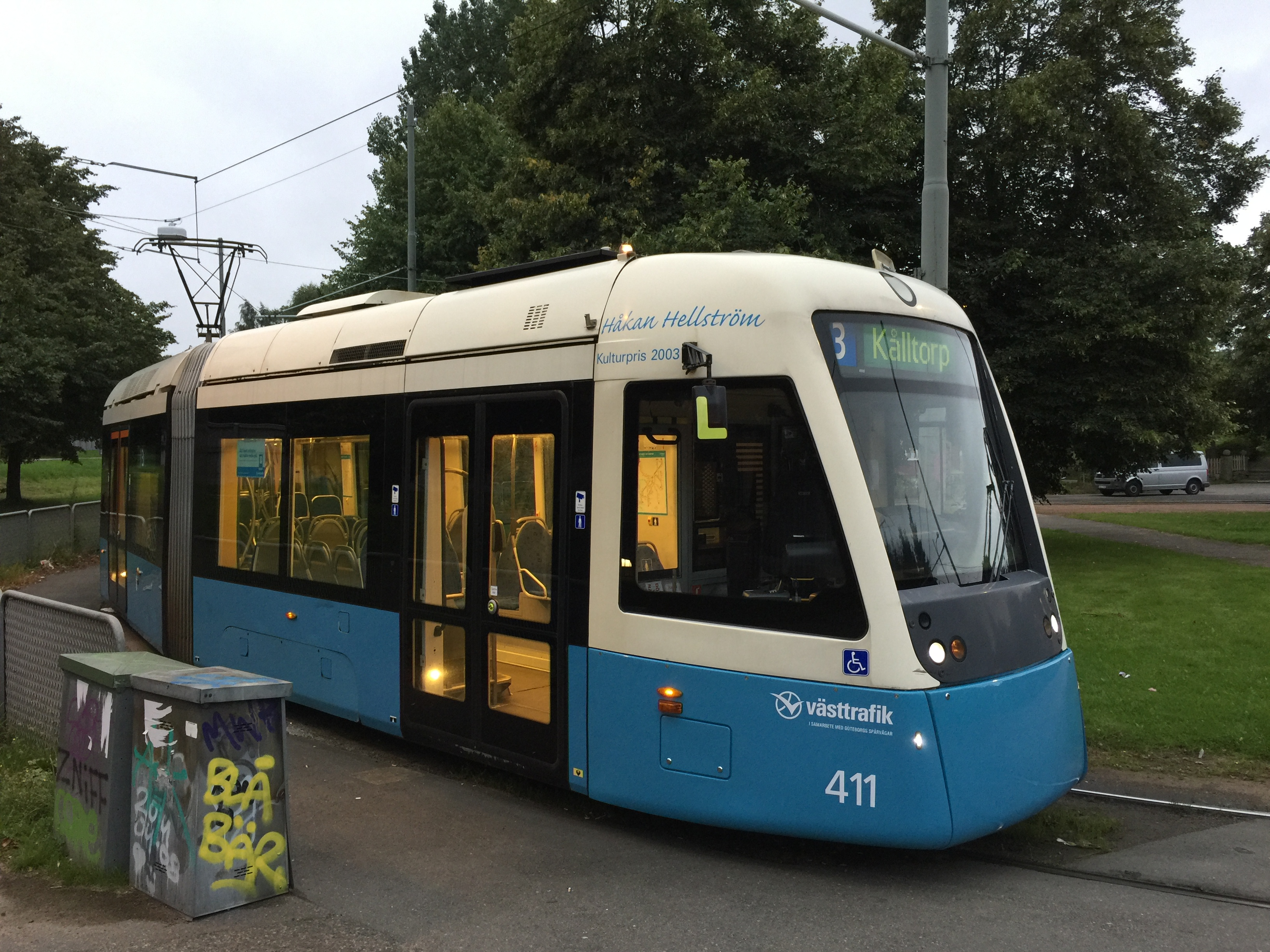 A M32 tram, no. 411 with Håkan Hellströms name on the front.